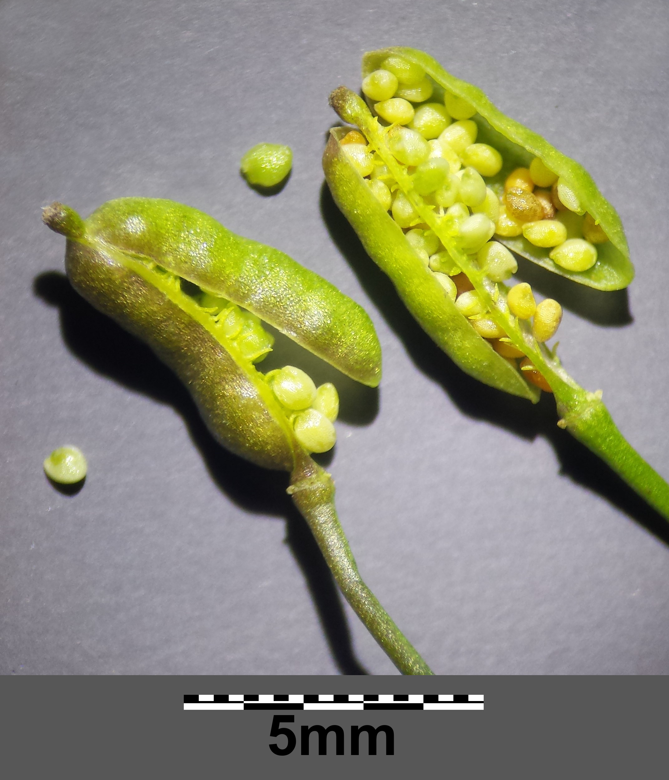 Fruits with seeds Taxonym: Rorippa palustris ss Fischer et al. EfÖLS 2008 ISBN 978-3-85474-187-9 Location: Rudmannser Teich, district Zwettl, Lower Austria - ca. 580 m a.s.l. Habitat: wet meadows